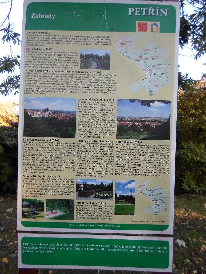 Educative sheet with more info about gardens in Petrin park